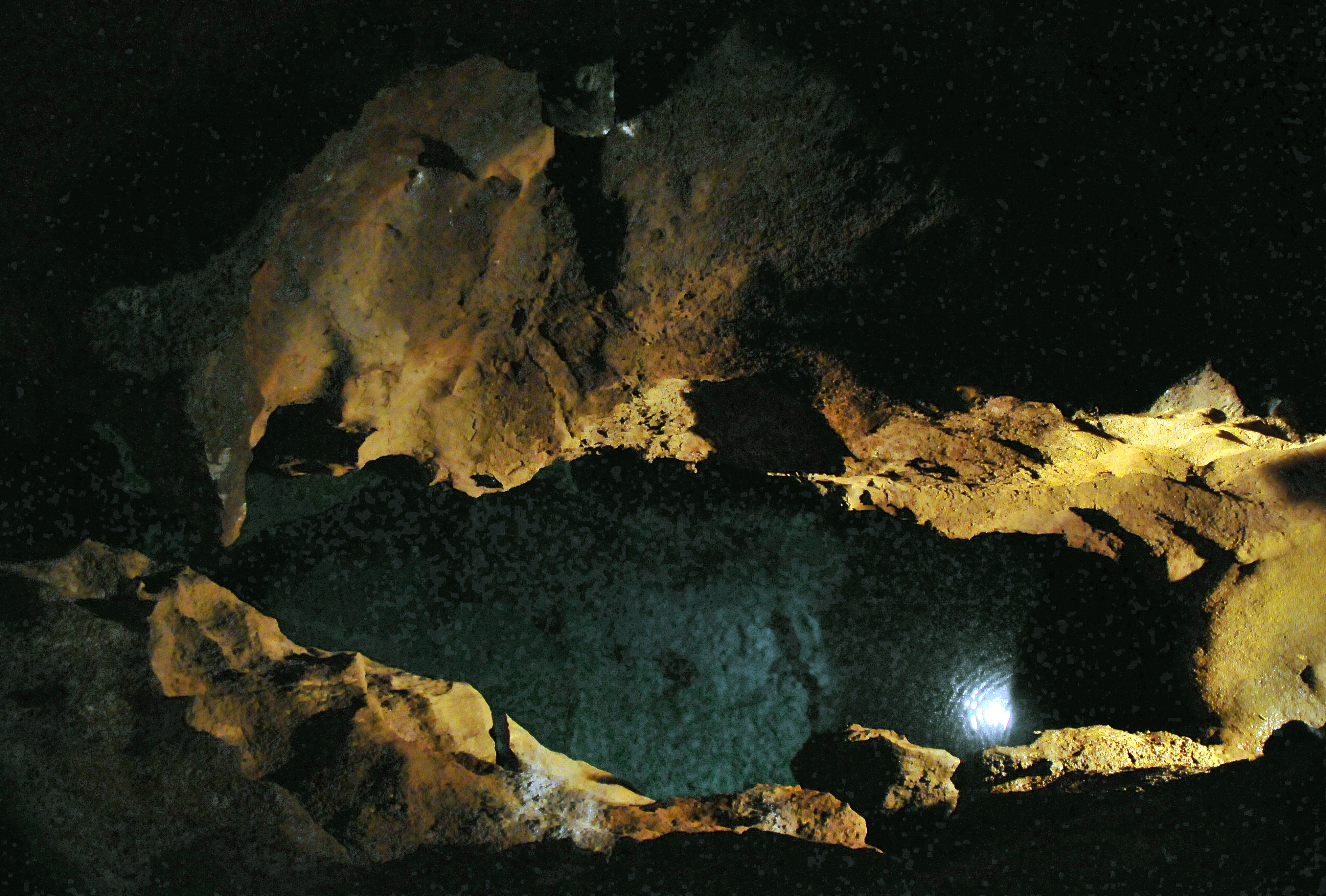 The "Pool of Reflections". Jenolan Caves [Binoomea], Blue Monuntains, New South Wales, Australia